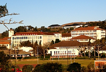 The old part of the Rhodes University campus -- looking across the Great Fields towards the Student Union building and the science buildings.